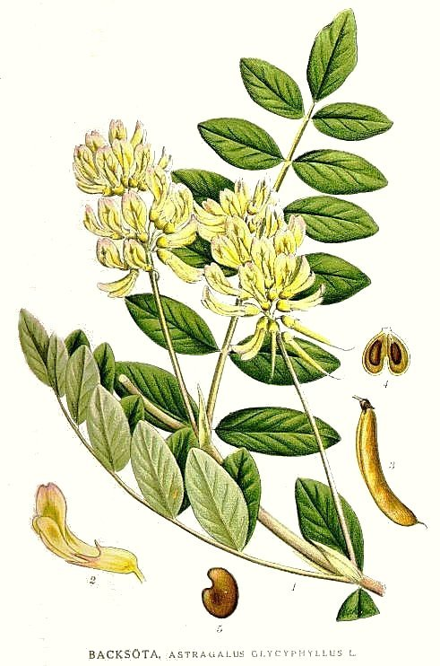 Astragalus glycyphyllos L. Original Description Backsota, Astragalus glycyphyllus L.